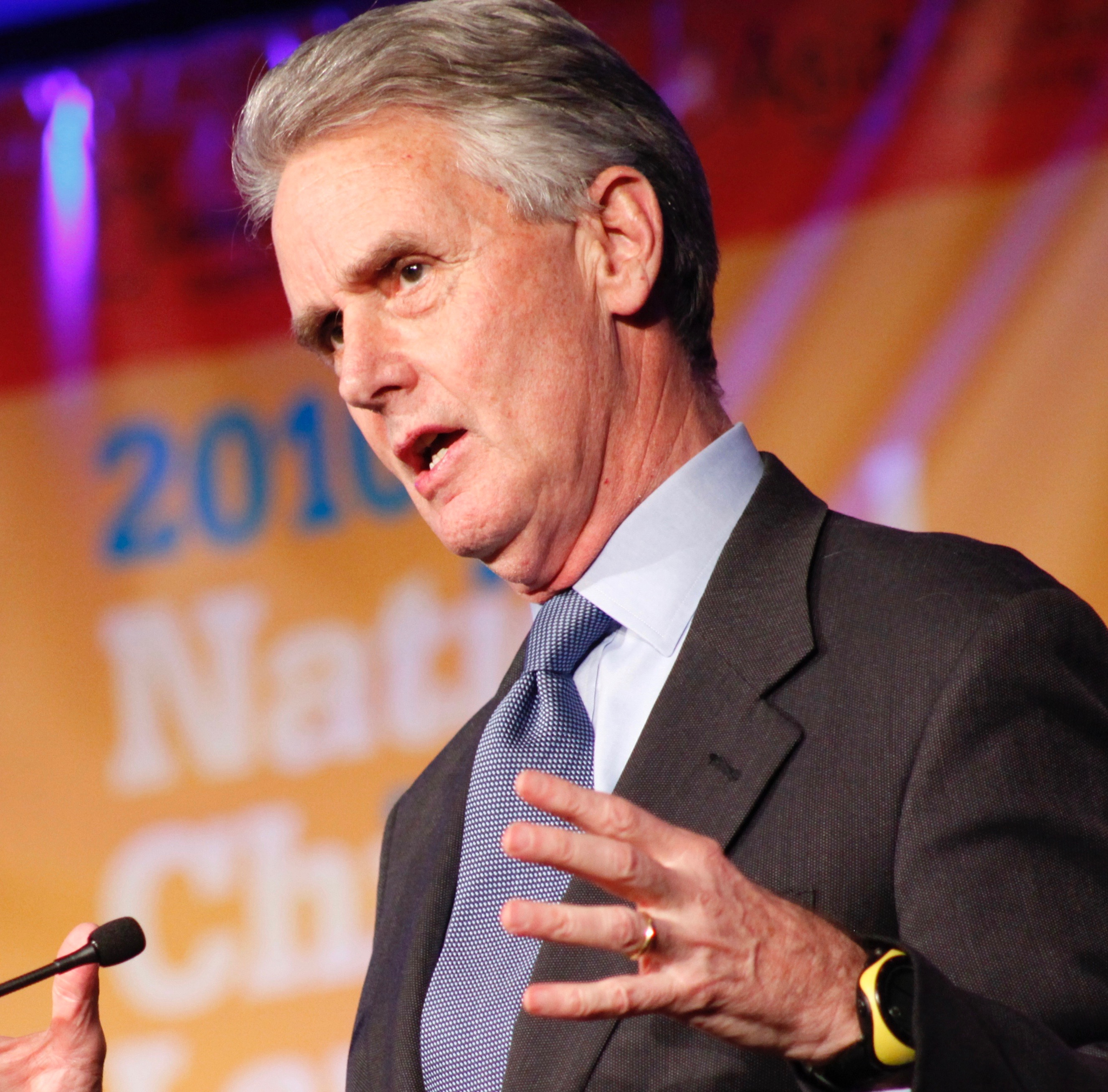 Gaston Caperton, Former Governor of West Virginia and former President of the College Board.